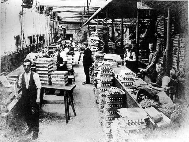 Shuttle-making at the Addison Street works in Blackburn of Rowland Baguley and Company, c.1920. The company began in Manchester in 1840, but moved to Blackburn in 1854 where it took over part of the Eagle Foundry in Starkie Street. The firm bought and converted the old Gas Street Mill in 1878, extending it in 1881 and 1889. Some 50 employees produced a wide range of shuttles for the home textile industry and for export before it closed in the early 1930's.